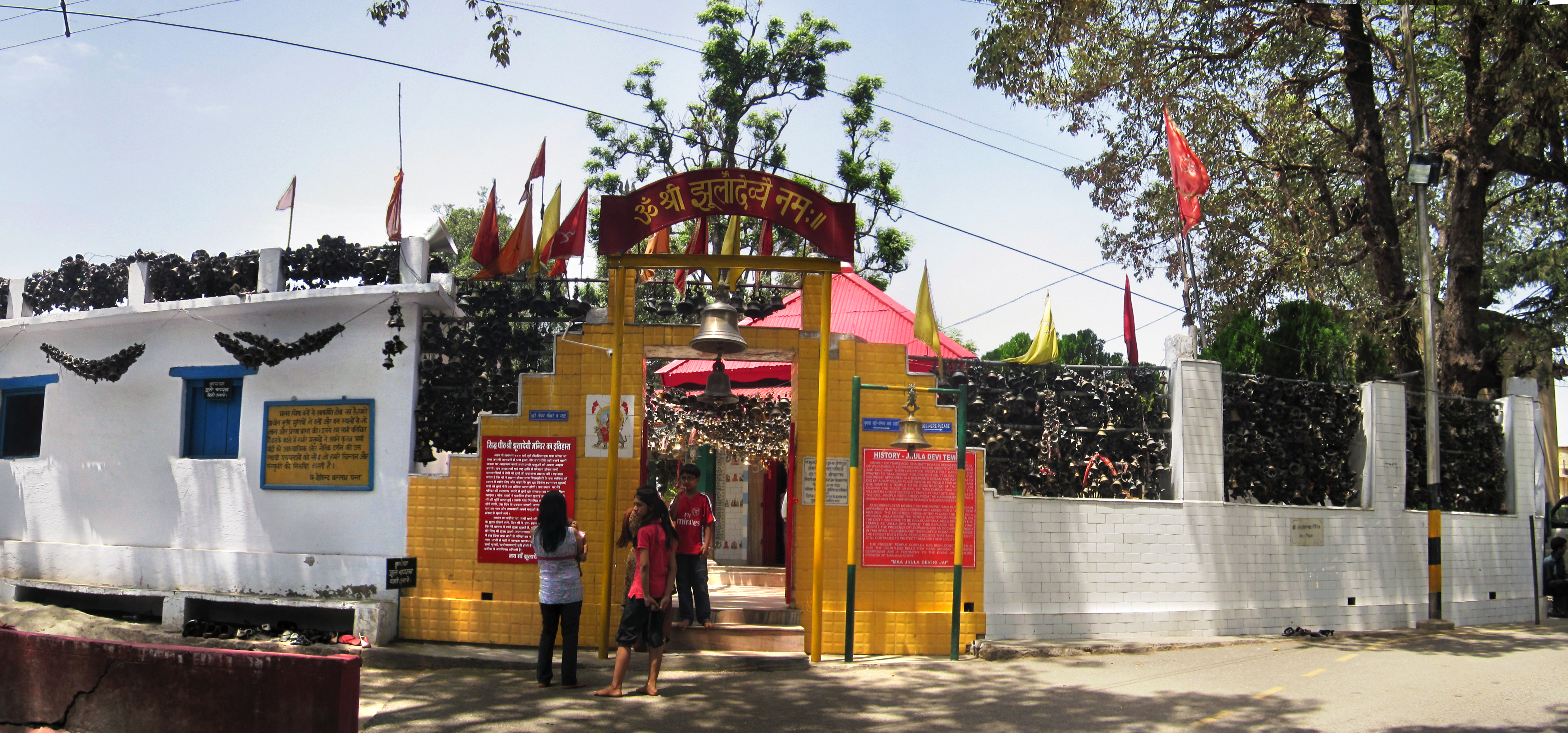 Jhula devi temple, Ranikhet.jpg near chaubatia